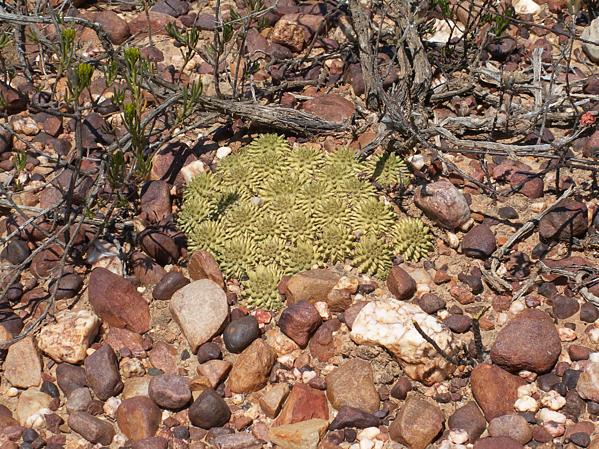 Suzanne's spurge , Euphorbia susannae Marloth, near Barrydale, Little Karoo, Western Cape, Southafrica